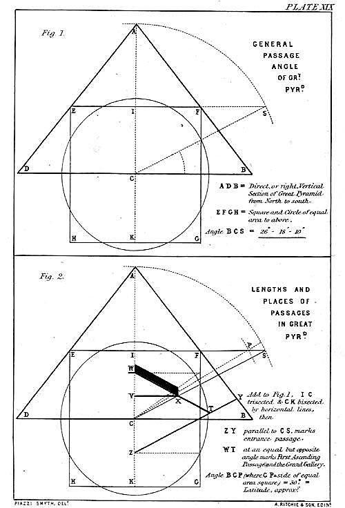 Plate XIX from Charles Piazzi Smyth: Our Inheritance in the Great Pyramid. 3rd, much enlarged edition. London 1877.